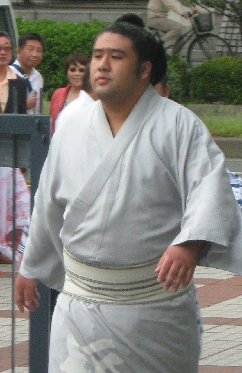 Picture taken at Sep 2008 tournament